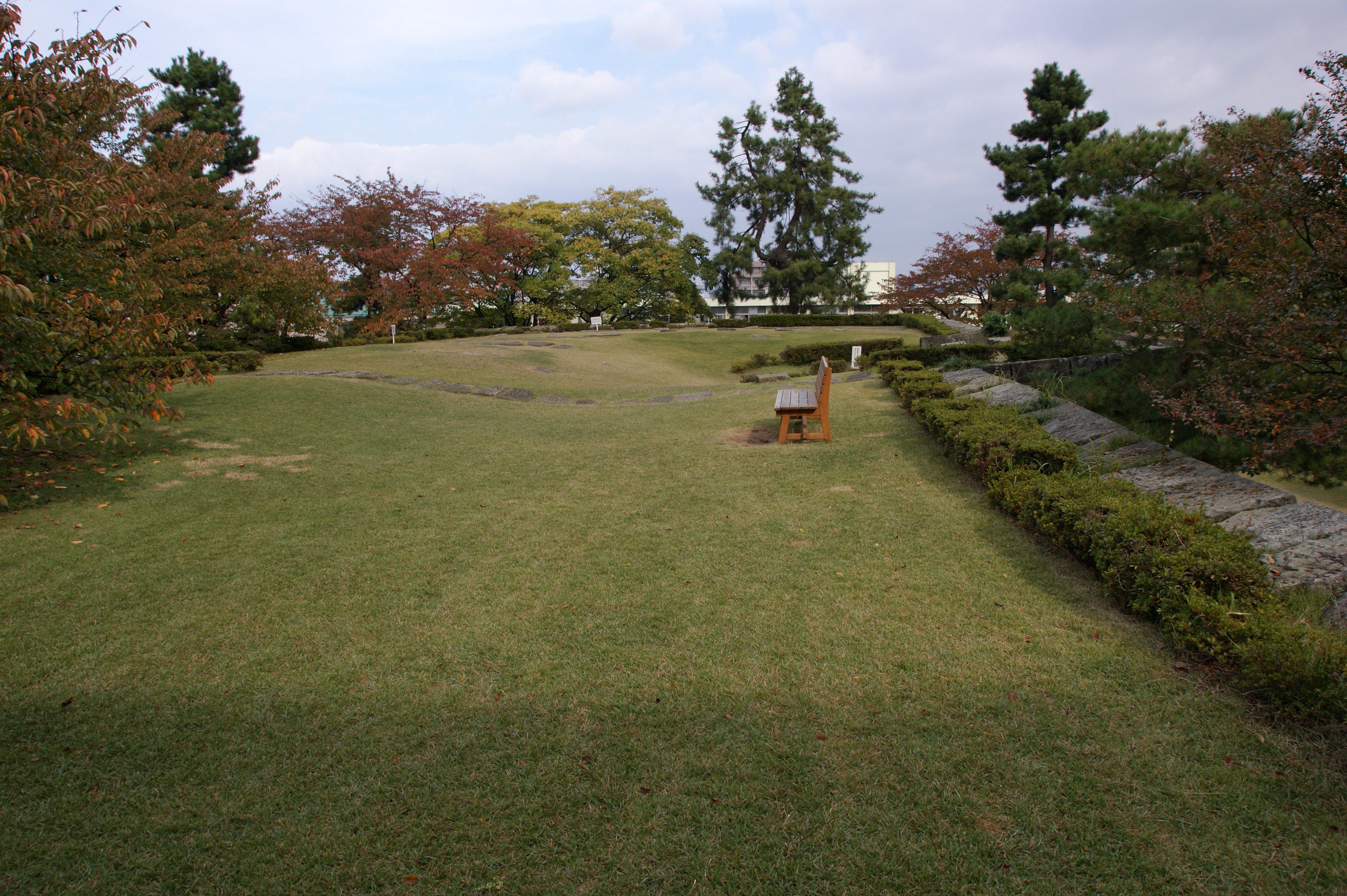 Fukui Castle, Fukui, Fukui prefecture, Japan